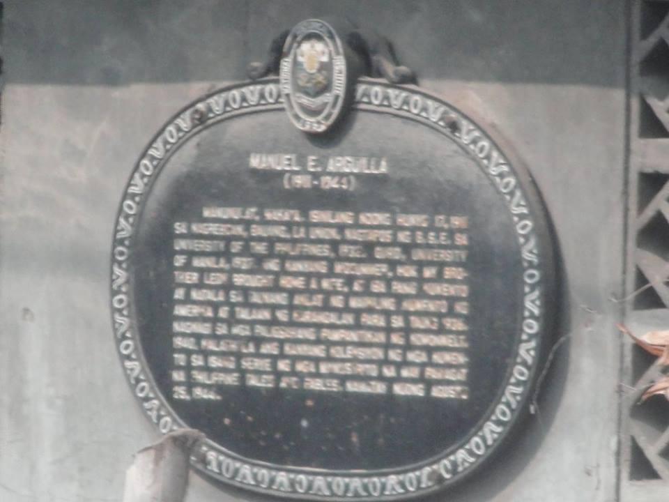 Arguilla marker